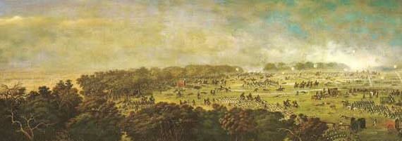 Detail of Cándido López's painting, Ataque del Boquerón-Batalla del Sauce (1897, National History Museum of Argentina). Bad quality, the painting being only available on the blog used as a source.